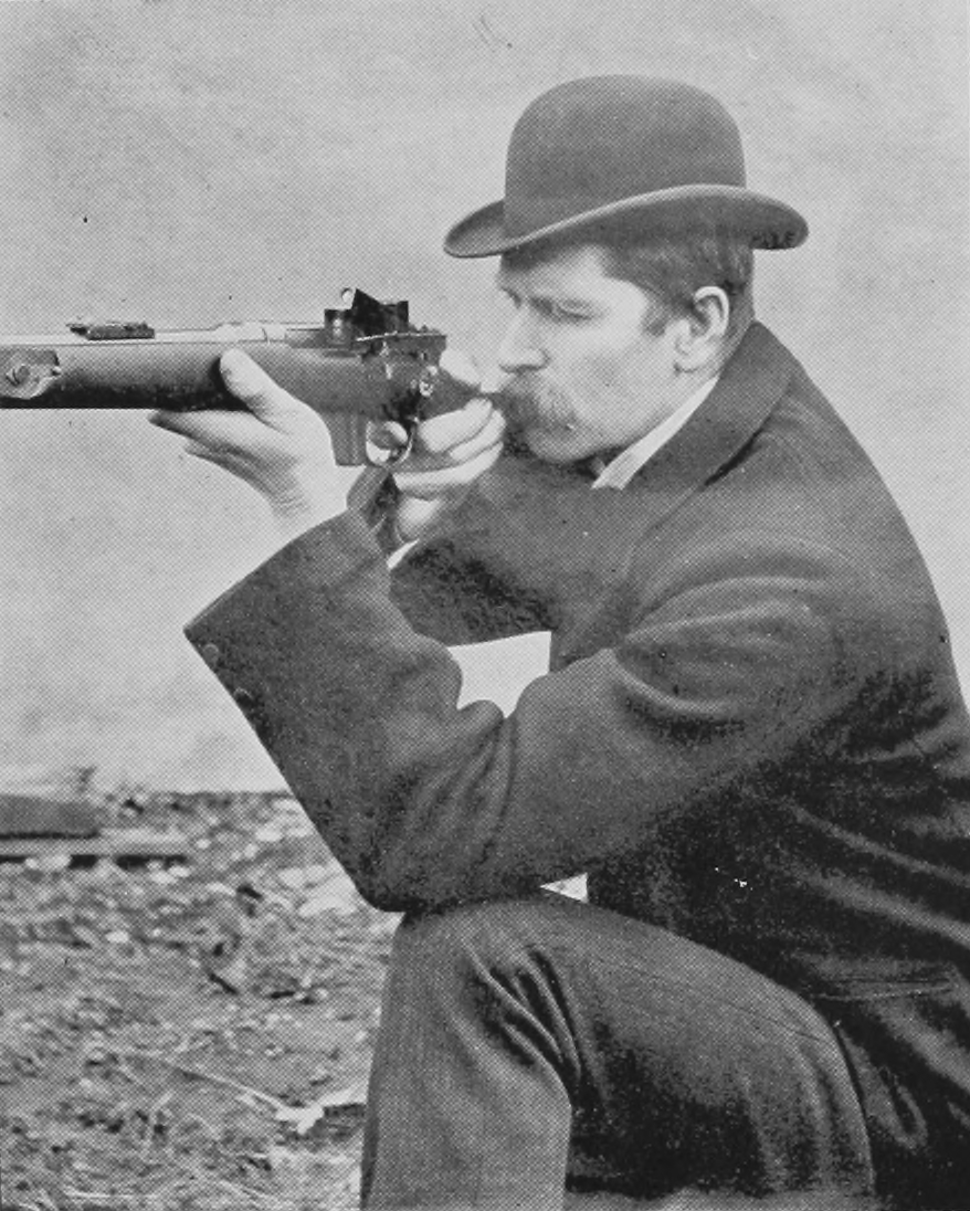 Prototype of an early reflector sight, constructed by J. Emerson Reynolds und G. Rudolf Grubb based on a patent by Sir Howard Grubb. Original description reads “Photographs showing sight attached to rifle.”